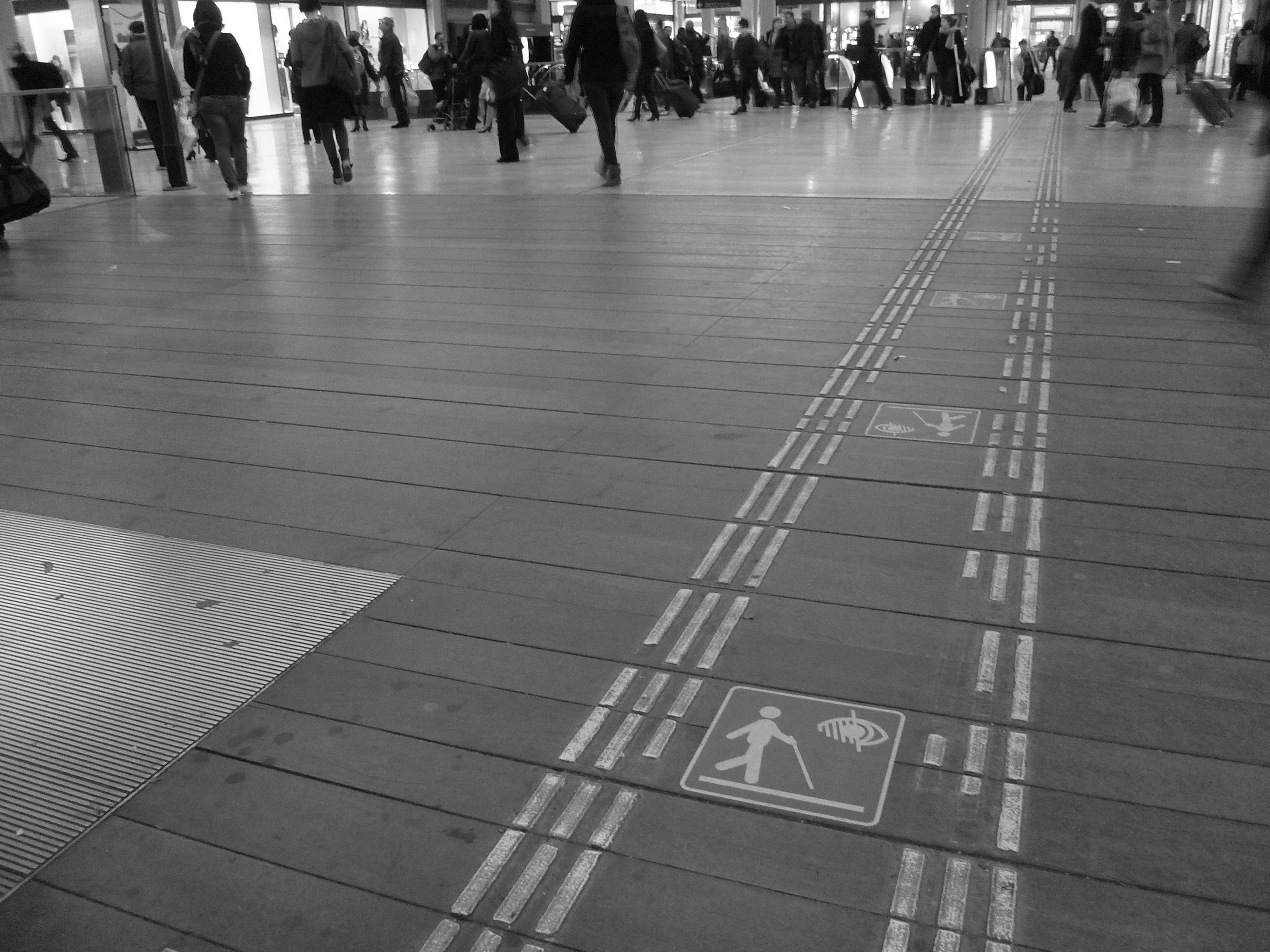 Tactile paving in a train station (Gare de Paris-Est, Paris, France).